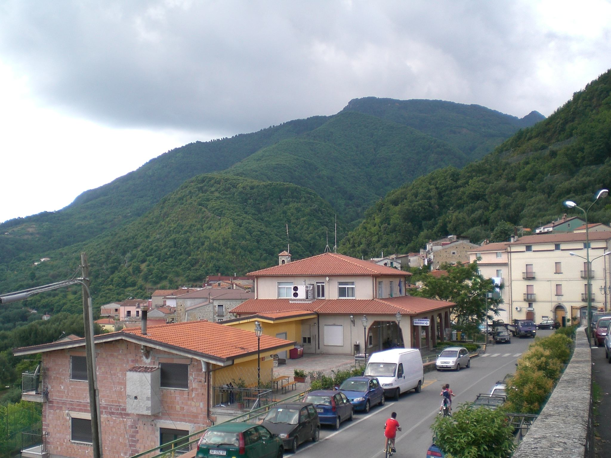 View of Laurito